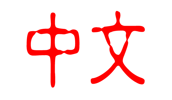 Old Printing characters of Zhongwen